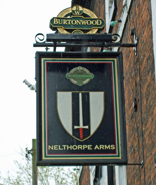 The Sign of the Nelthorpe Arms. The Nelthorpe Arms 43801 is situated on Bridge Street.